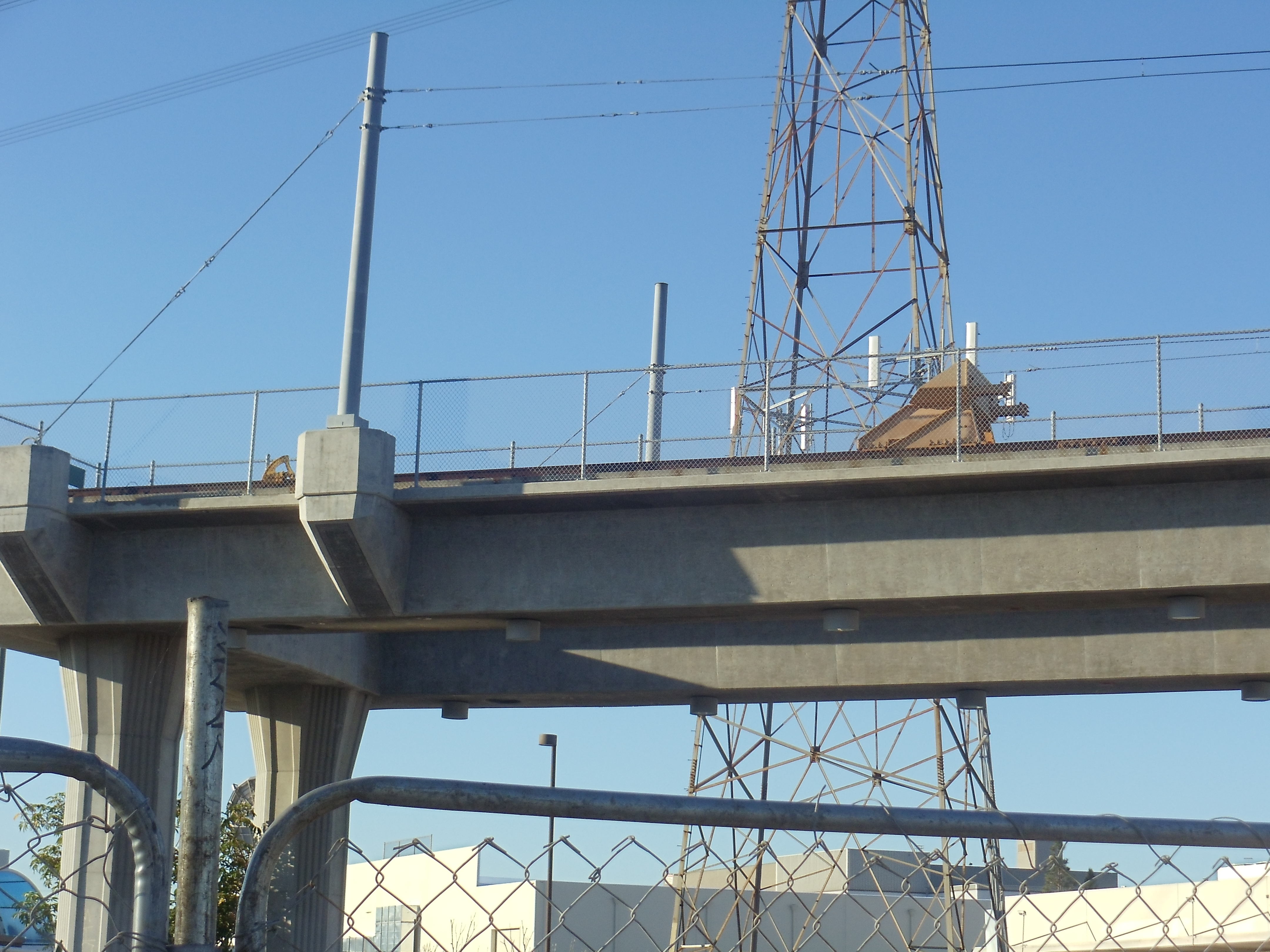 The future South Bay Green Line extension would extend the Metro Green Line from here to Torrance.